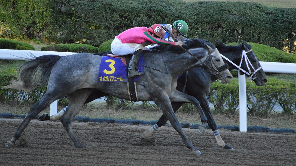 Japanese race horse Chuwa Wizard at Urawa racecourse. Urawa (JPN) 4 Nov 2019 JBC Classic (Local Grade 1) (Dirt) (3yo+) 1m2f Muddy RankHorse NameOddsAgeWgtJockeyTrainer1stChuwa Wizard (JPN)3/5FC49-0Yuga KawadaRyuji Okubo2ndOmega Perfume (JPN)2/1C49-0Mirco DemuroSyogo YasudaOthers are omitted. (12 horses entered in a race.)